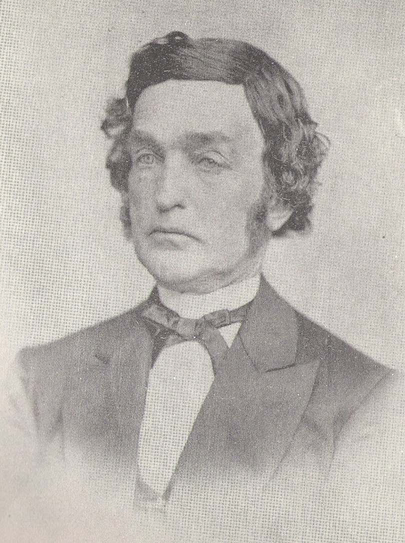 picture of Charles Mears, c. 1856